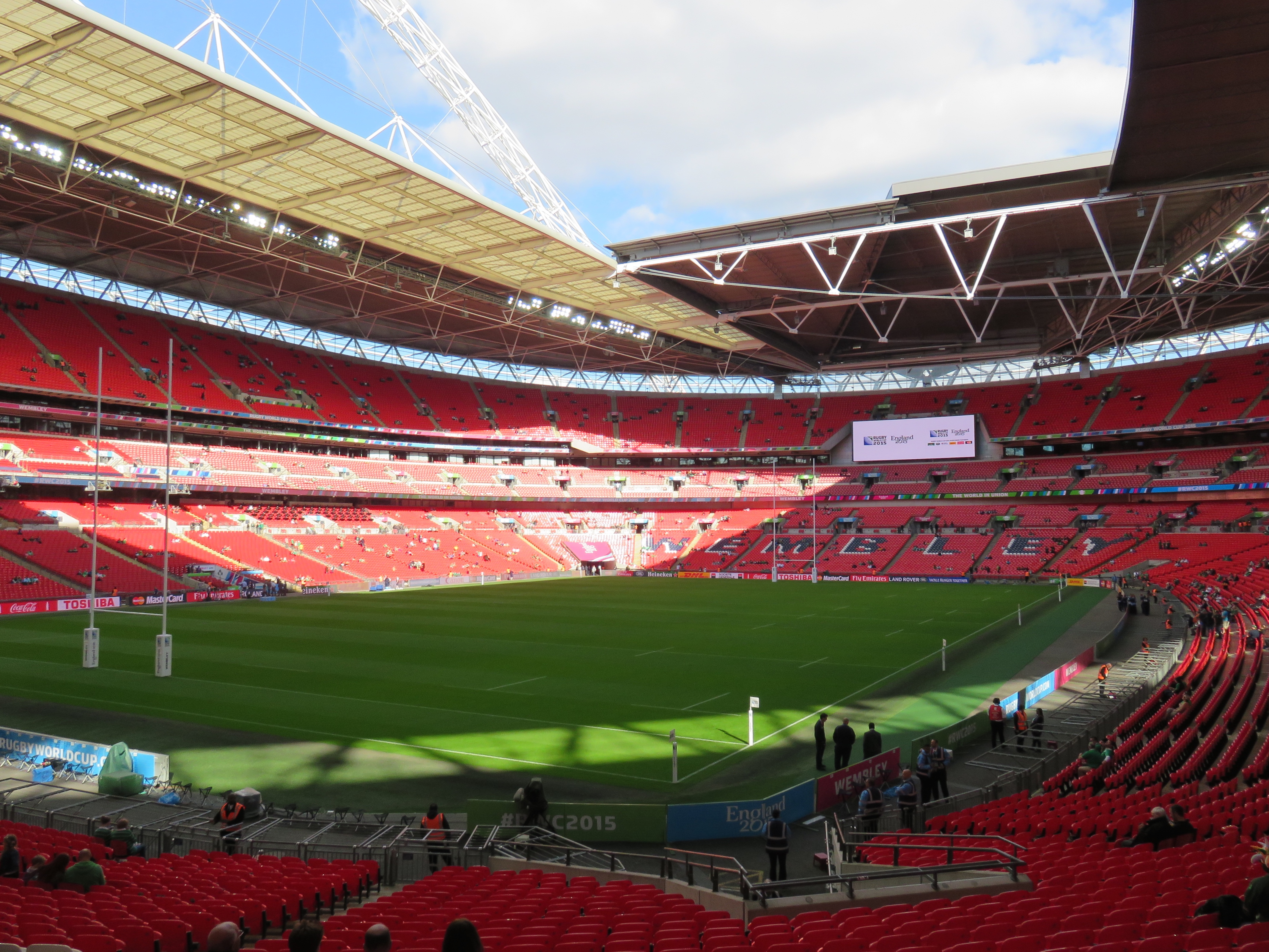 Wembley Stadium before 2015 Rugby World Cup game Ireland vs Romania.